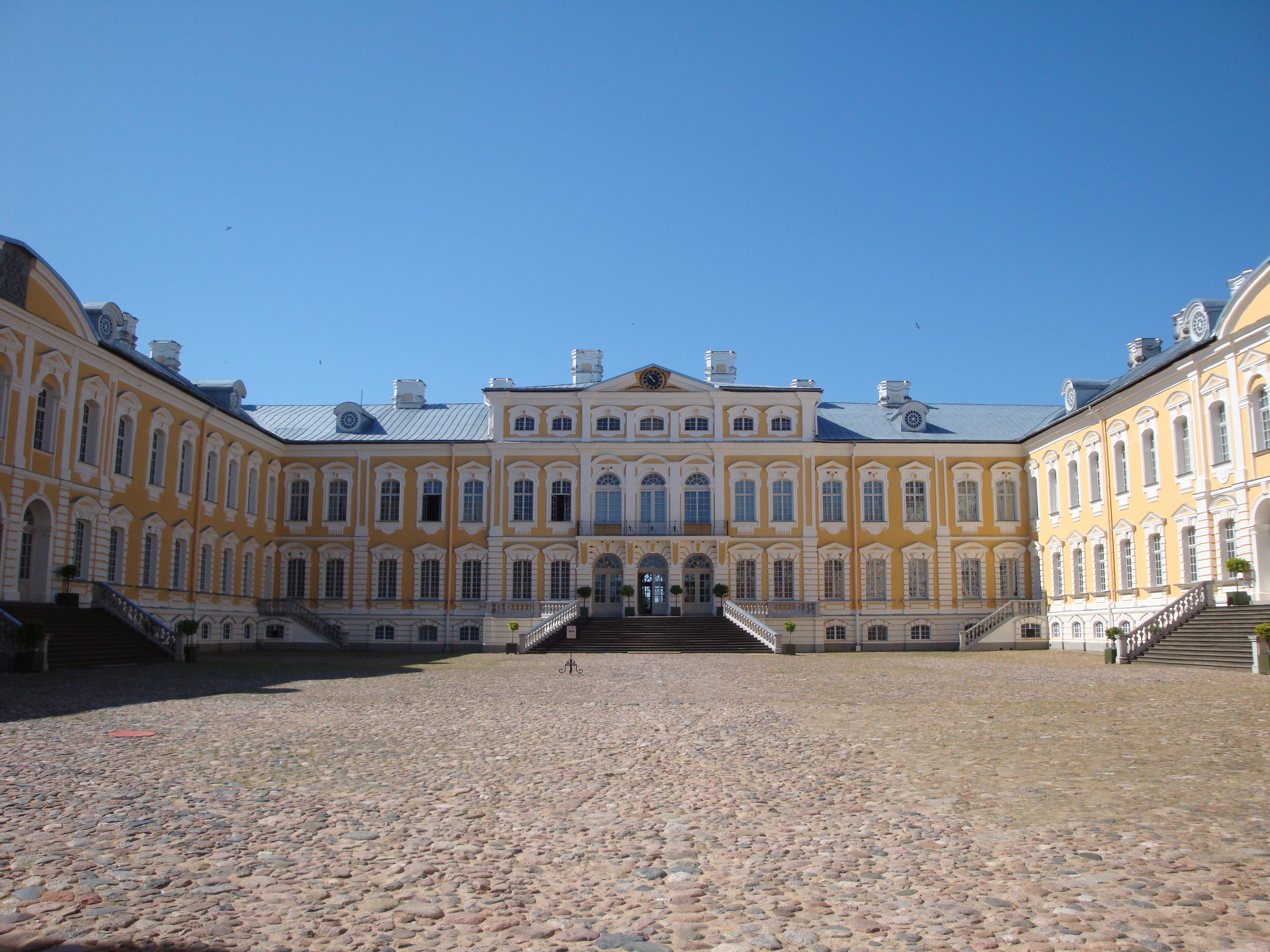 Rundāle Palace (main entry)